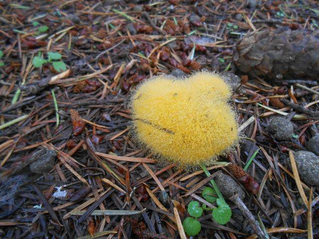 Dicranophora fulva J. Schröter